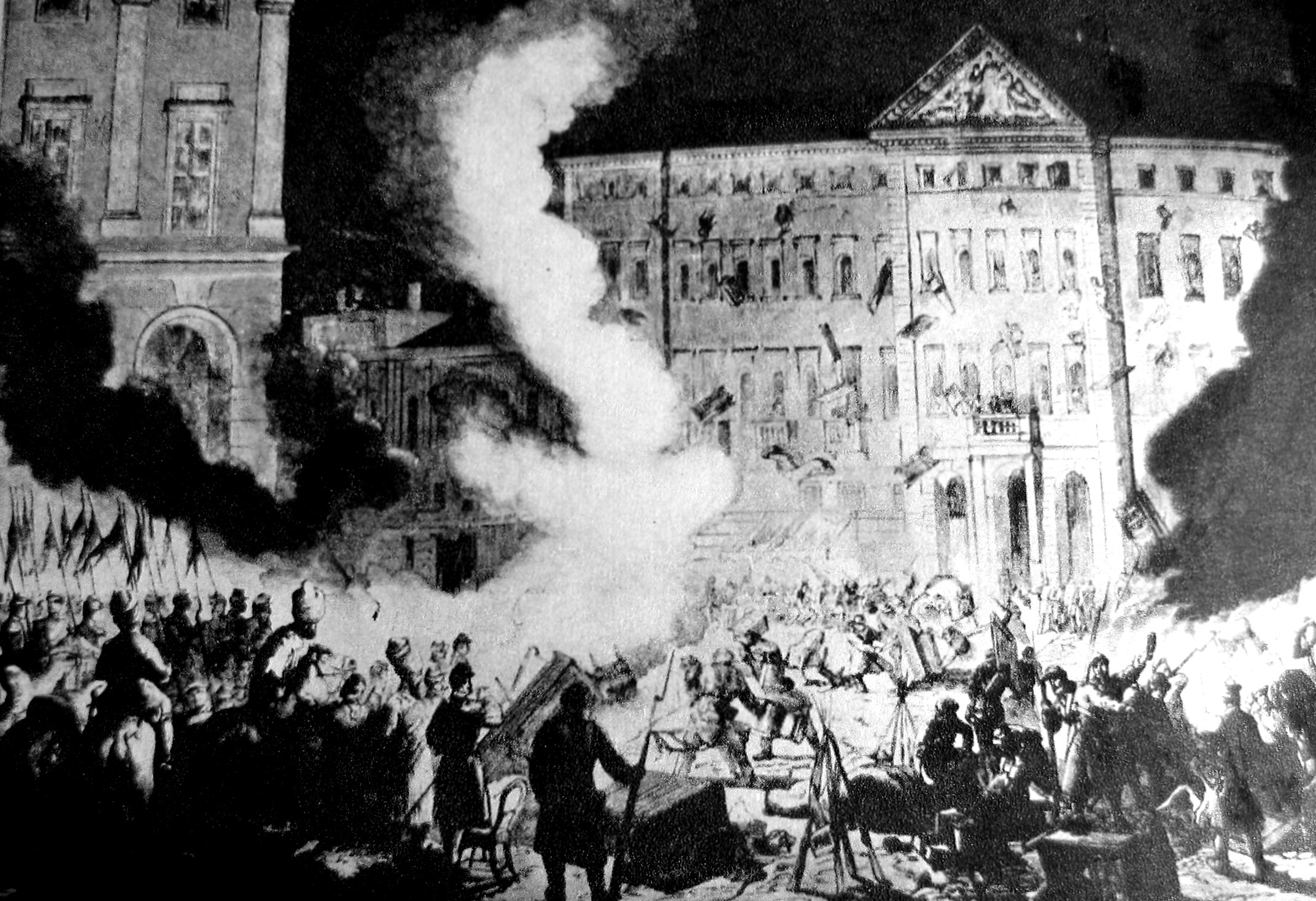 Russian army demolishing Zamoyski Palace in Warsaw 1863 after count Berg assasination attempt